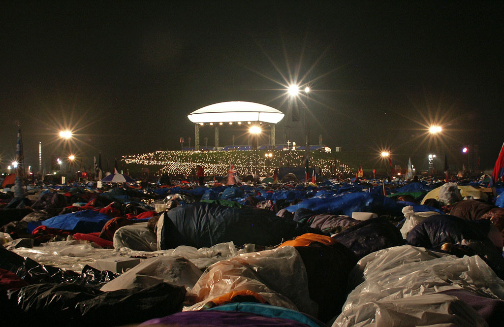 Thousands of Sleeping Pilgrims in the night of 20th/21st August 2005 at 3:00 in the morning. Location: Marienfeld near Cologne, Germany